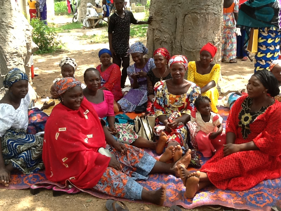 African women having a discussion about the progress of the community This is an image of "African people at work" from Nigeria